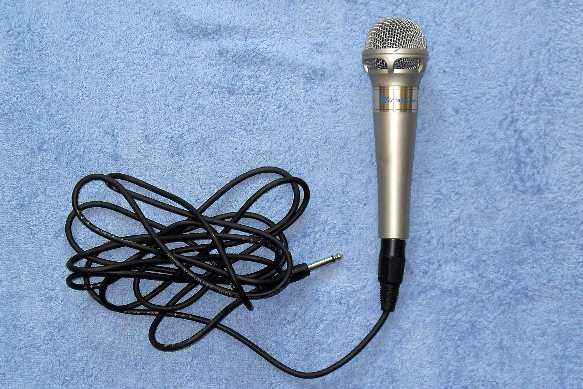 Karaoke microphone by Goldsound (PR China)